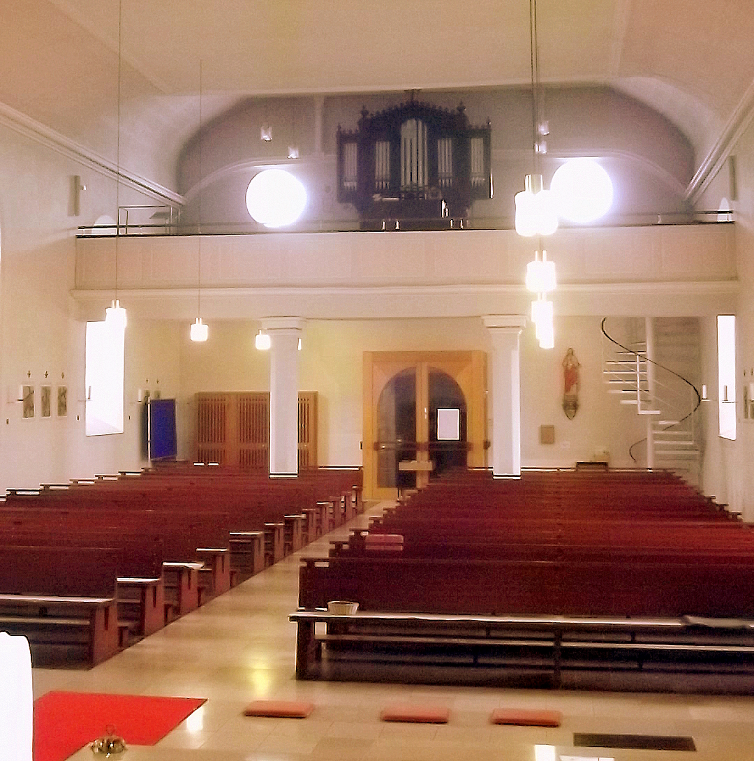 Interior of the roman catholic church in Büdingen, Saarland, Germany